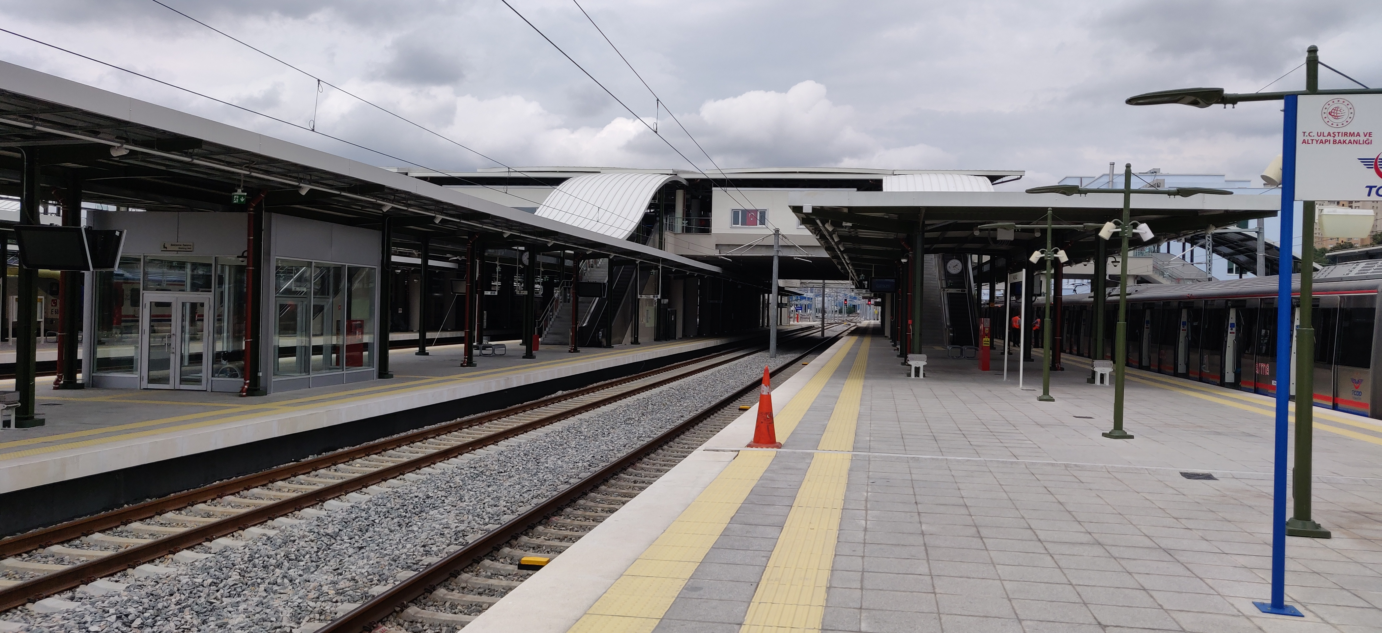 Looking north at the overpass of the new Halkali railway station from the Marmaray platform.